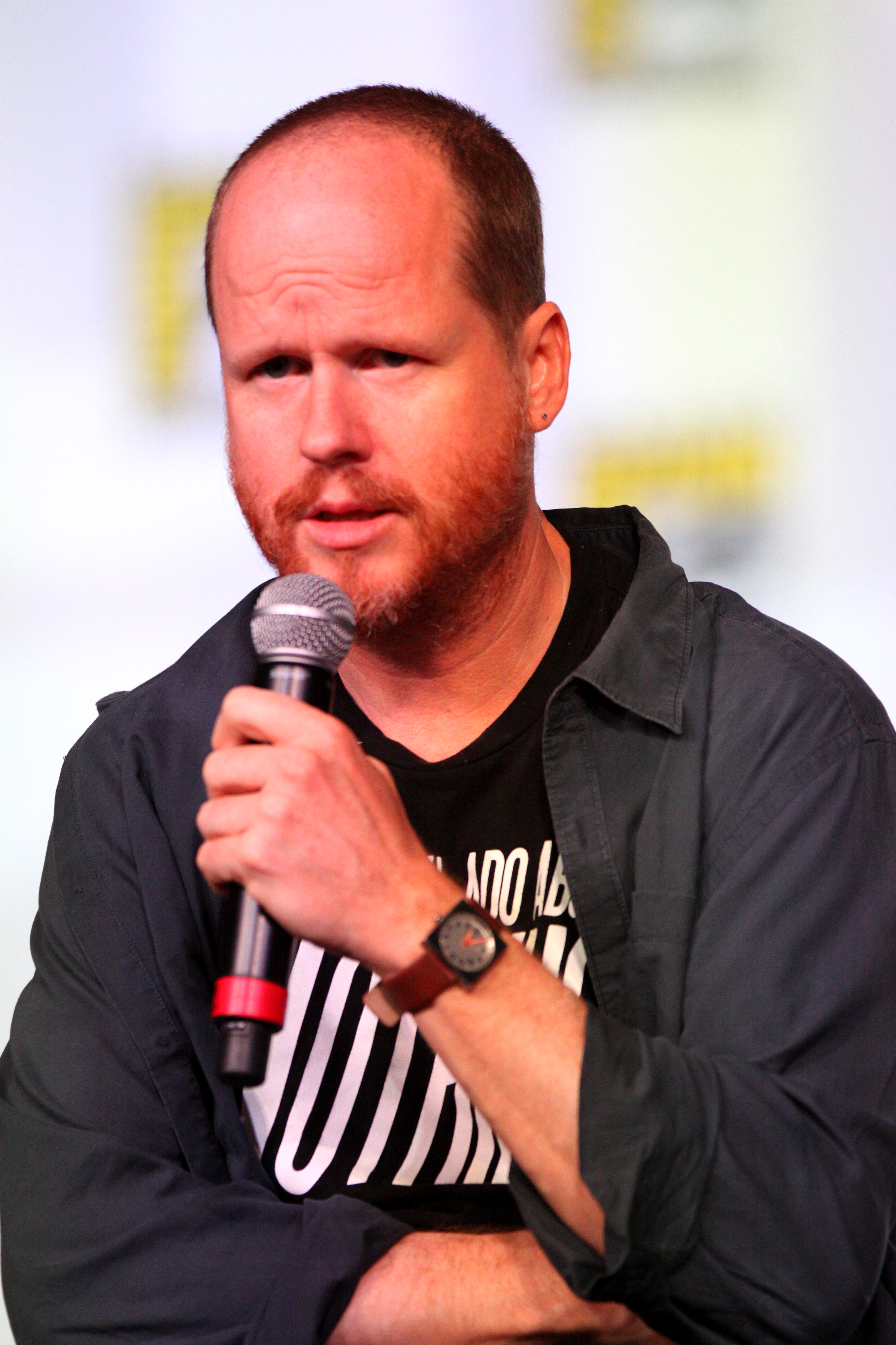 Joss Whedon speaking at the 2012 San Diego Comic-Con International in San Diego, California.